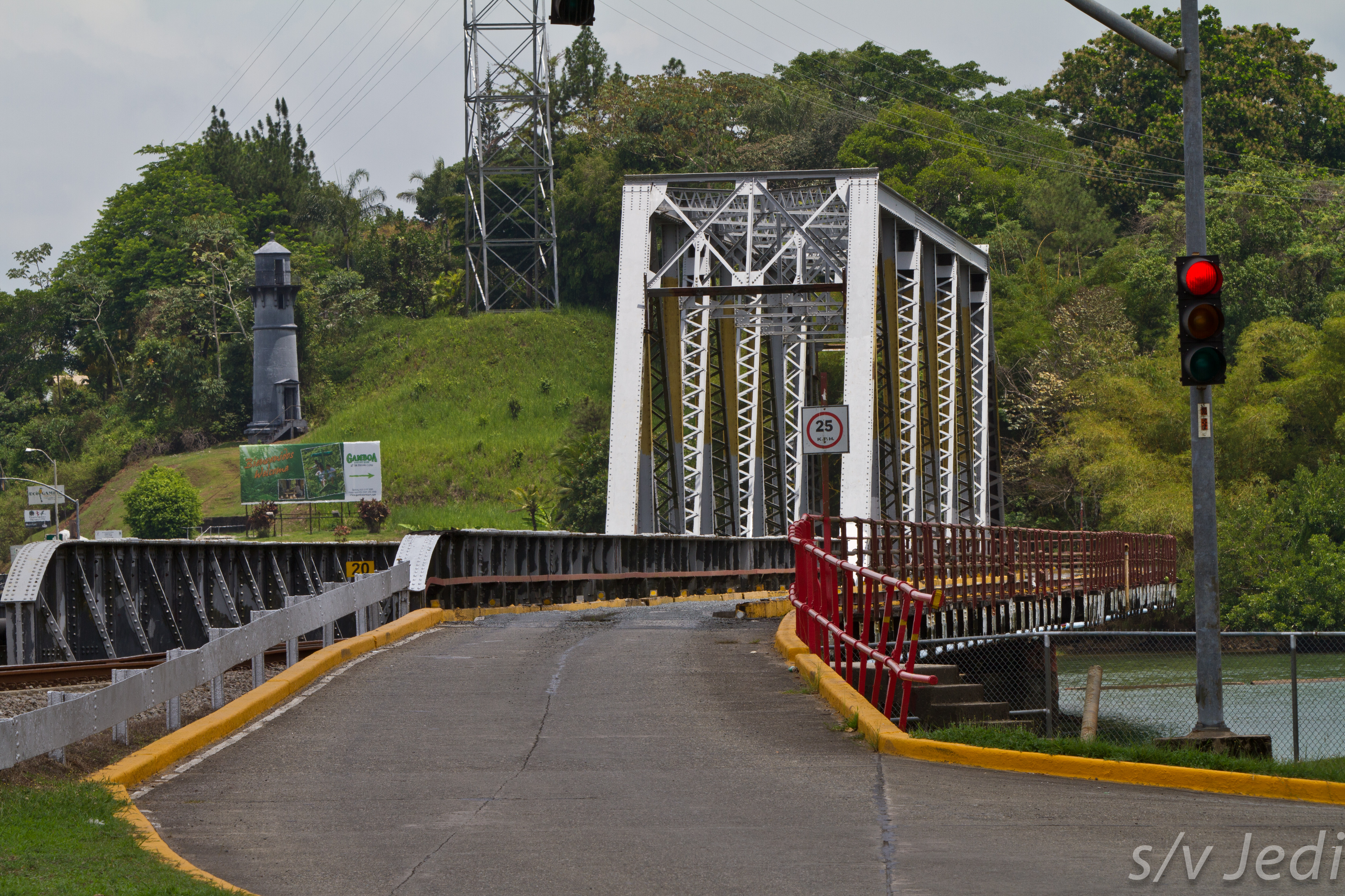 The famous single lane bridge with it's always red light.